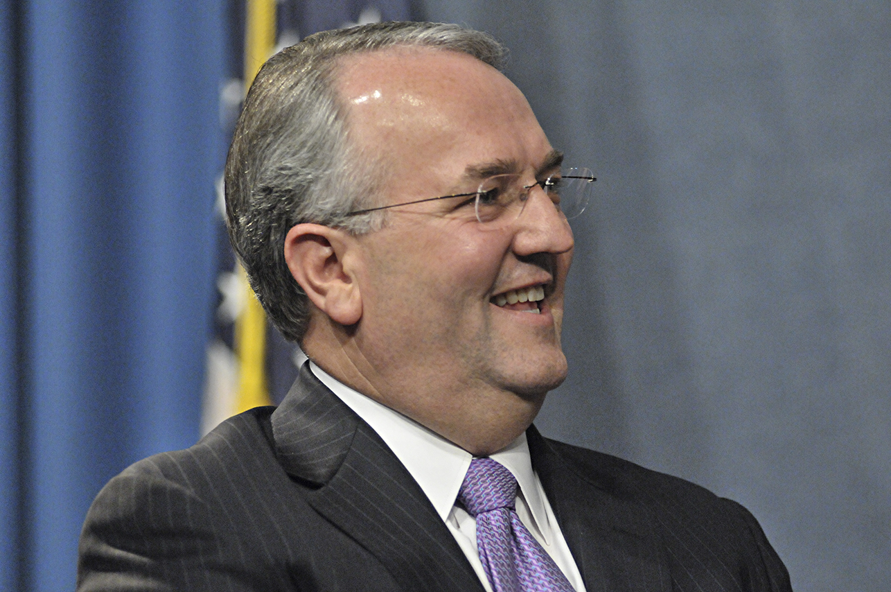 Jack Gerard, CEO & President of the American Petroleum Institute, speaks at the first panel on September 24, 2013.